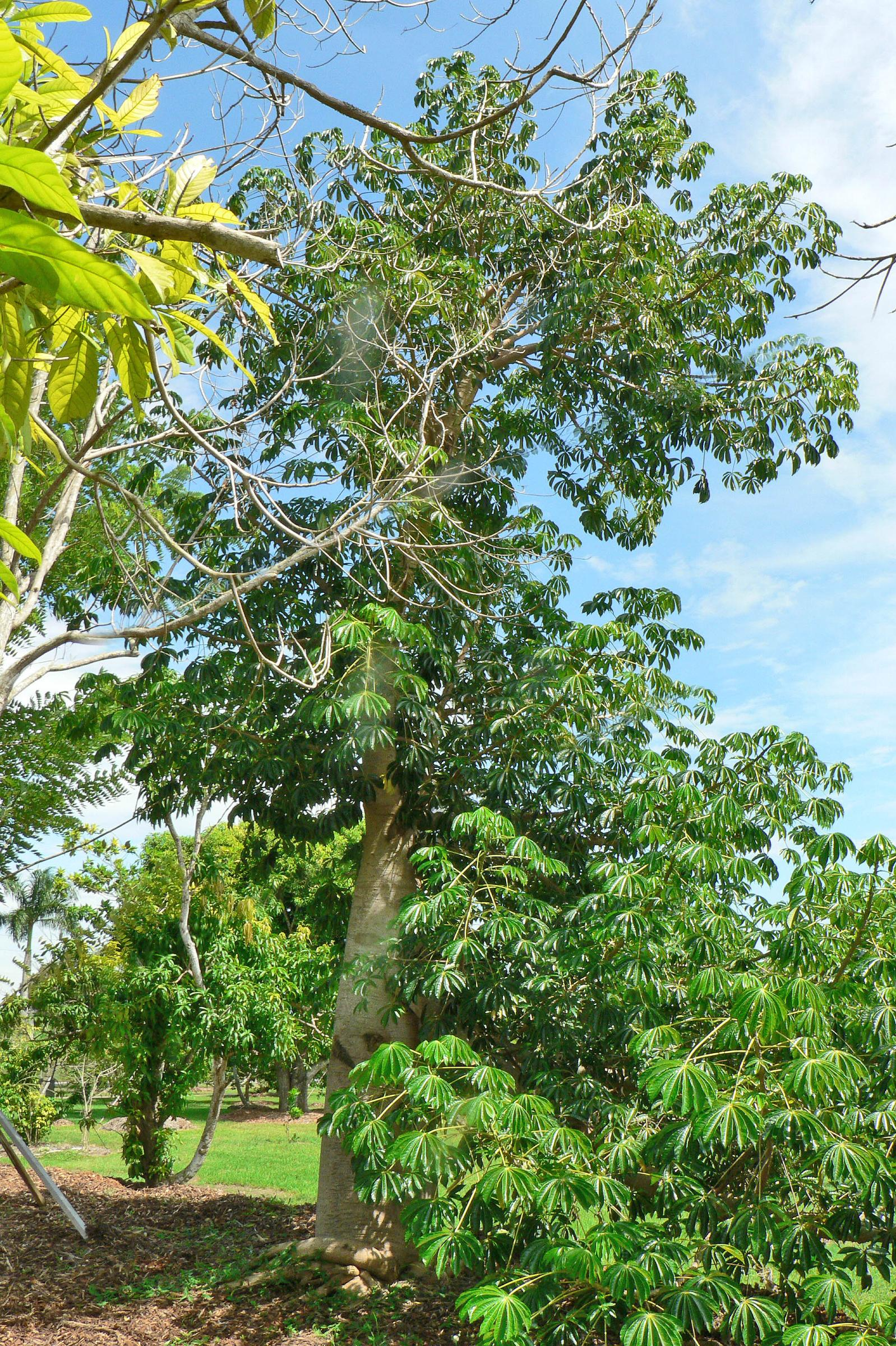 The Jacaratia spinosa Fruit & Spice Park, Homestead, Florida.